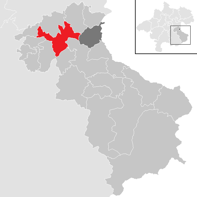 district Steyr-Land